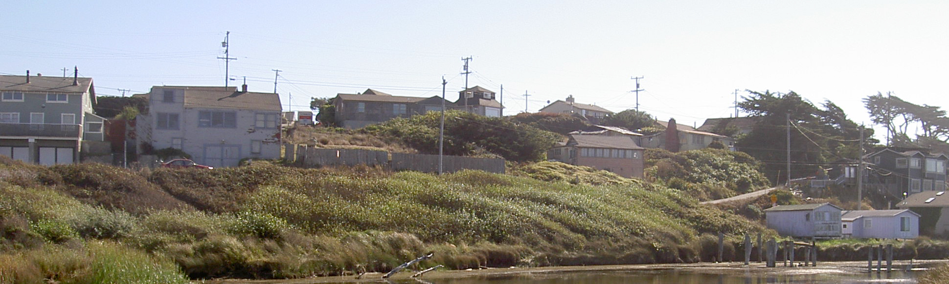 community of Salmon Creek, California, taken from across the creek near CA-1 bridge